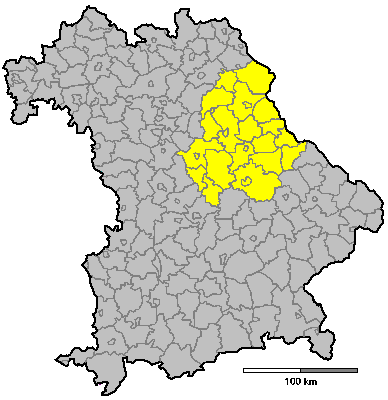 locator map of the former (1970) districts (Landkreise) in Bavaria, Germany